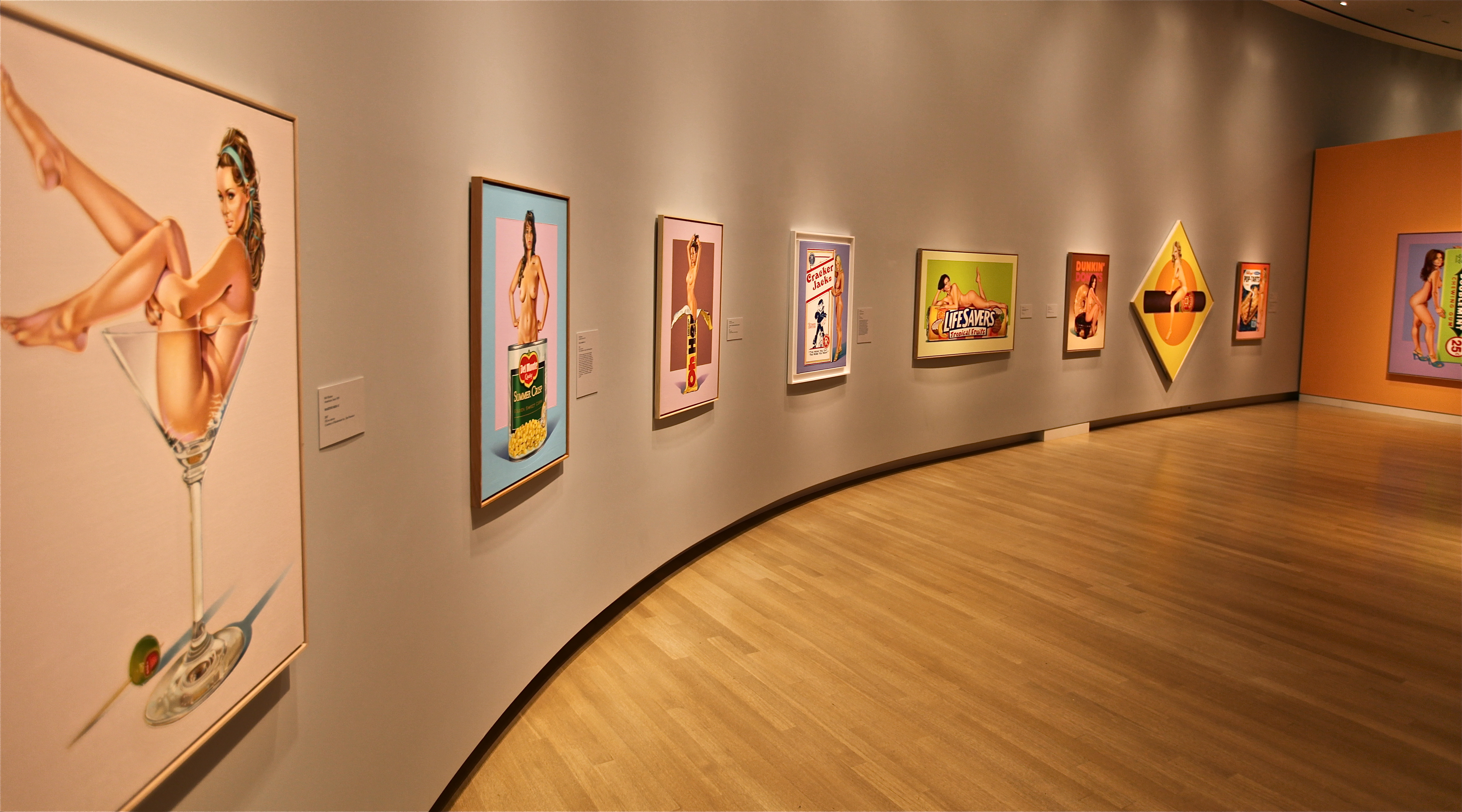 Mel Ramos - Installation view. Exhibition in Crocker Art Museum, Sacramento. 2012